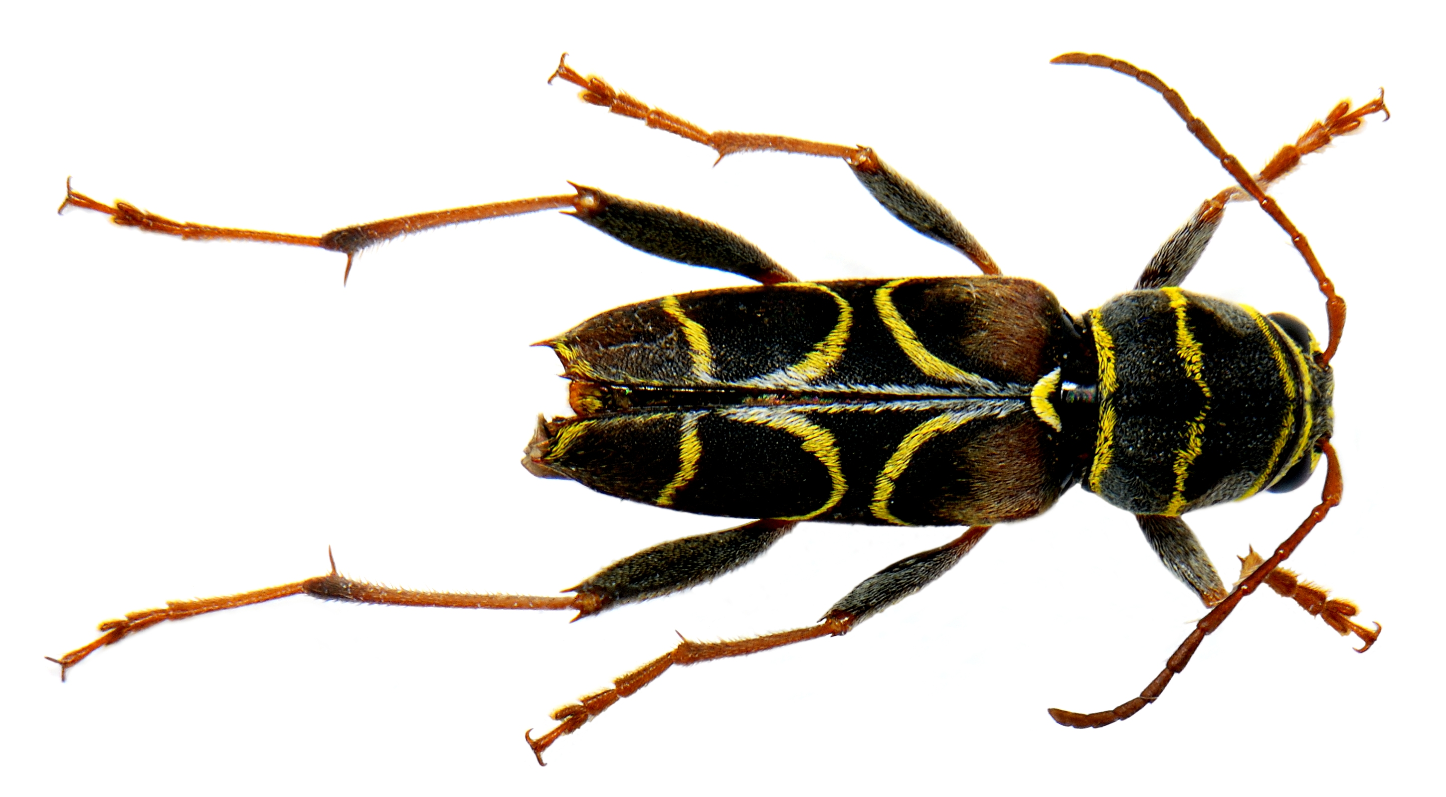 Specimen of Neoclytus scutellaris (Olivier), a cerambycid or longhorn beetle of the tribe Clytini. This individual was collected in USA: Connecticut: Middlesex County: Killingworth, 9 July 2012, collector M.K. Oliver, in collection of same. Length of head and body 9.7 mm.